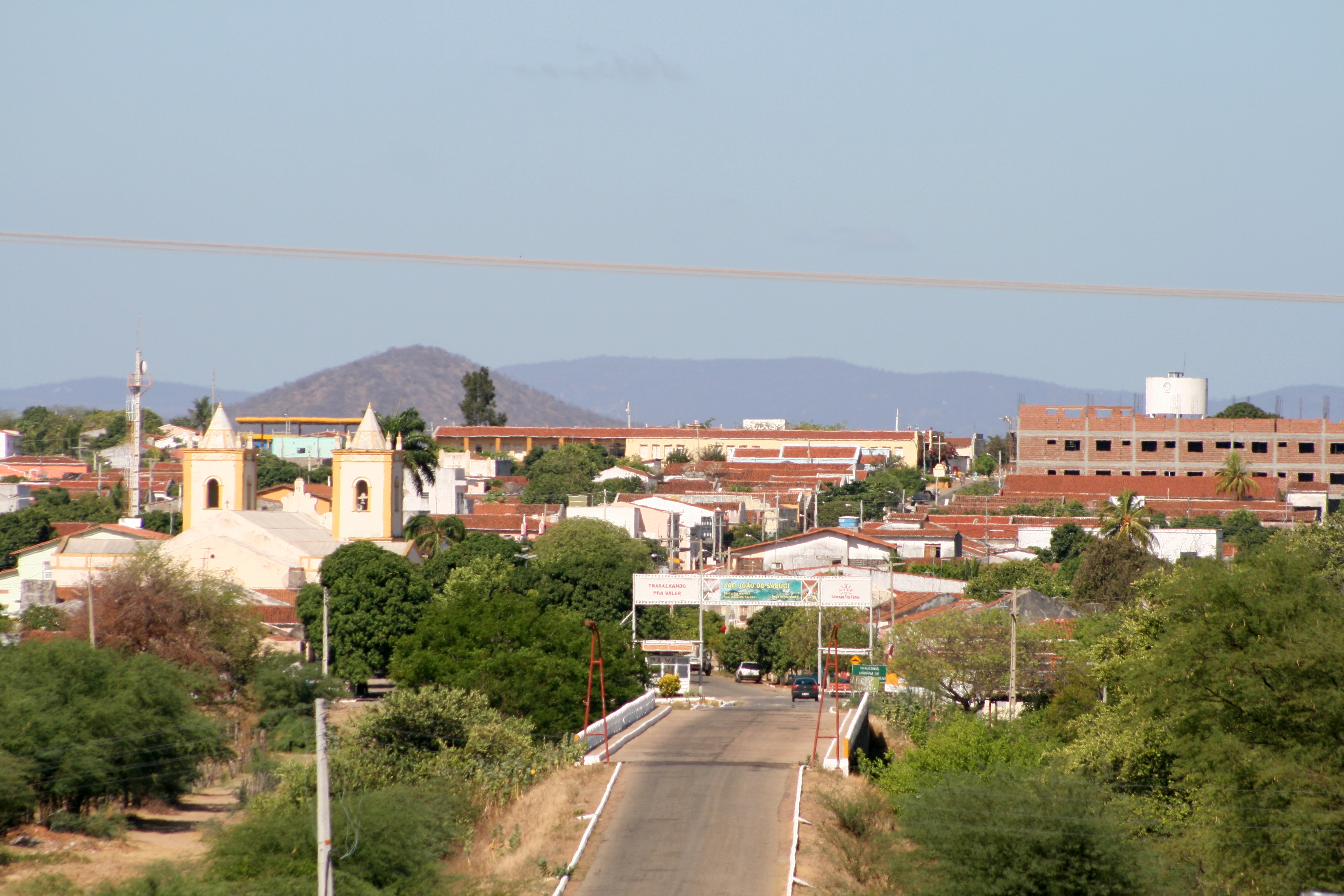 entrada da cidade São João do Sabugi - RN - Brazil